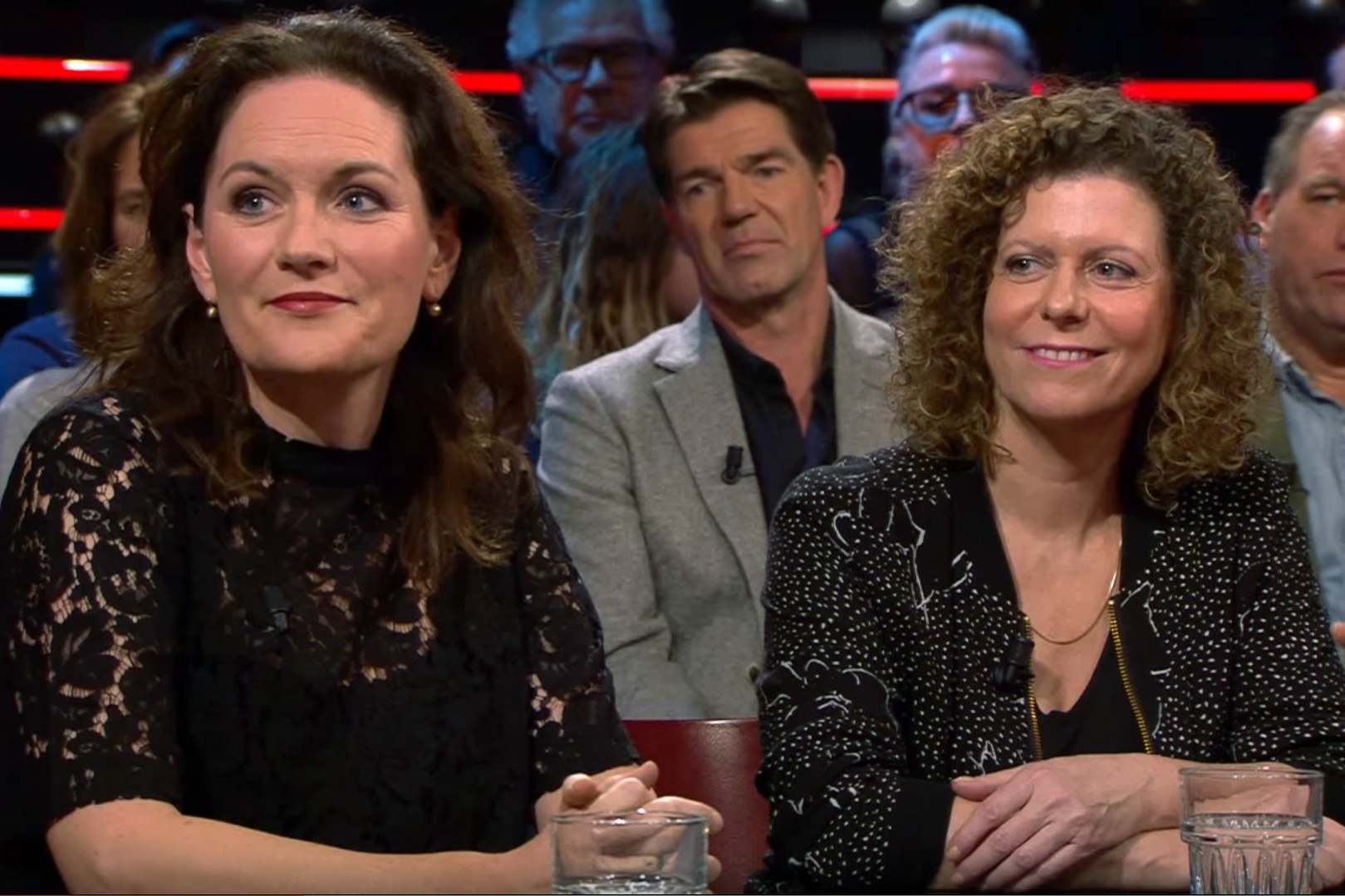 Maike Meijer en Margôt Ros (2017)